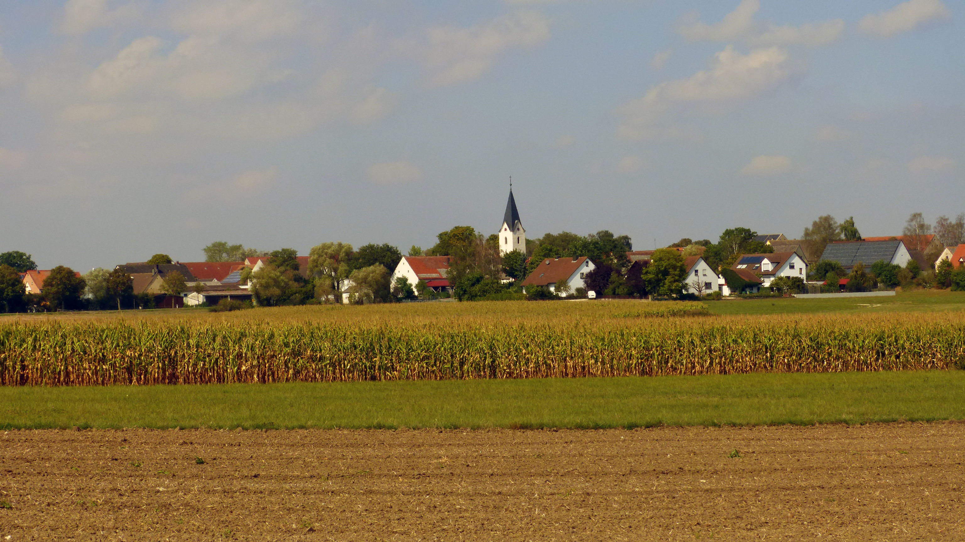 View on the Village Kattenhochstadt, part of the town Weißenburg (Bavaria), Germany